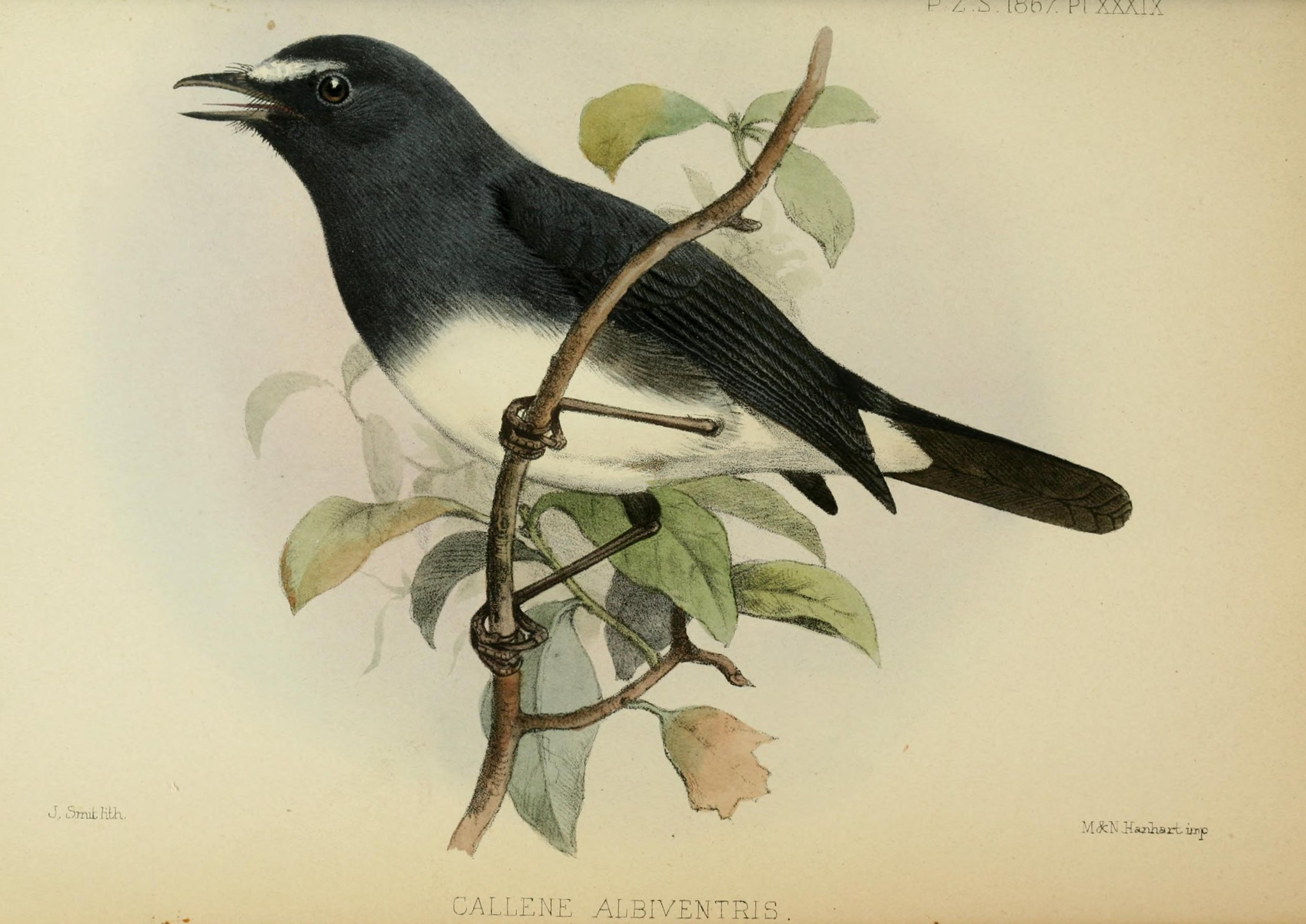 White-bellied Blue Robin, adult